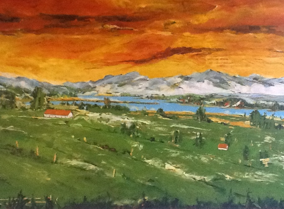 Hans-Jörg Holubitschka, Chiemsee, Oil on Canvass, 130 cm x 160 cm, 1999